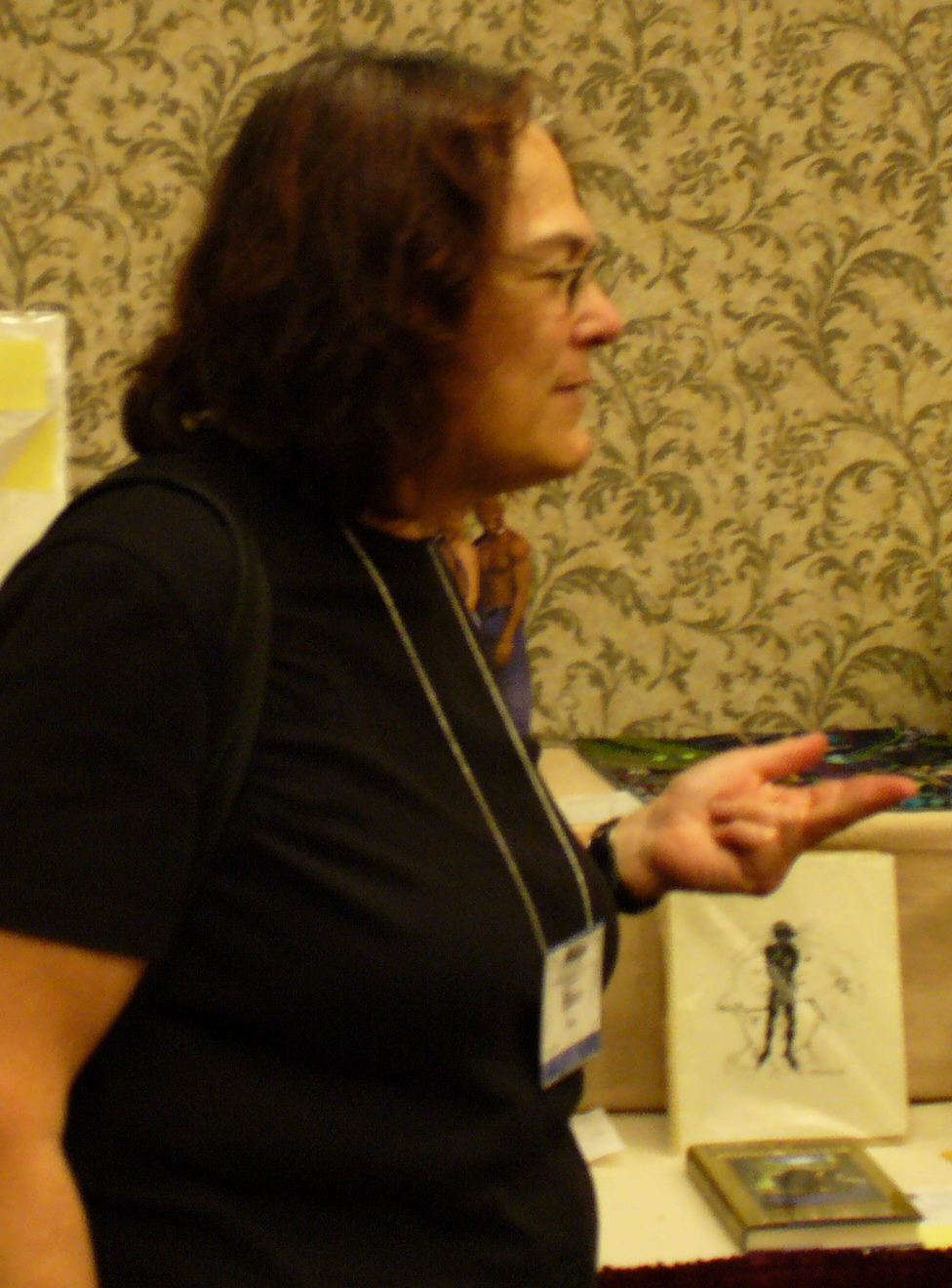 Stable and strategic.